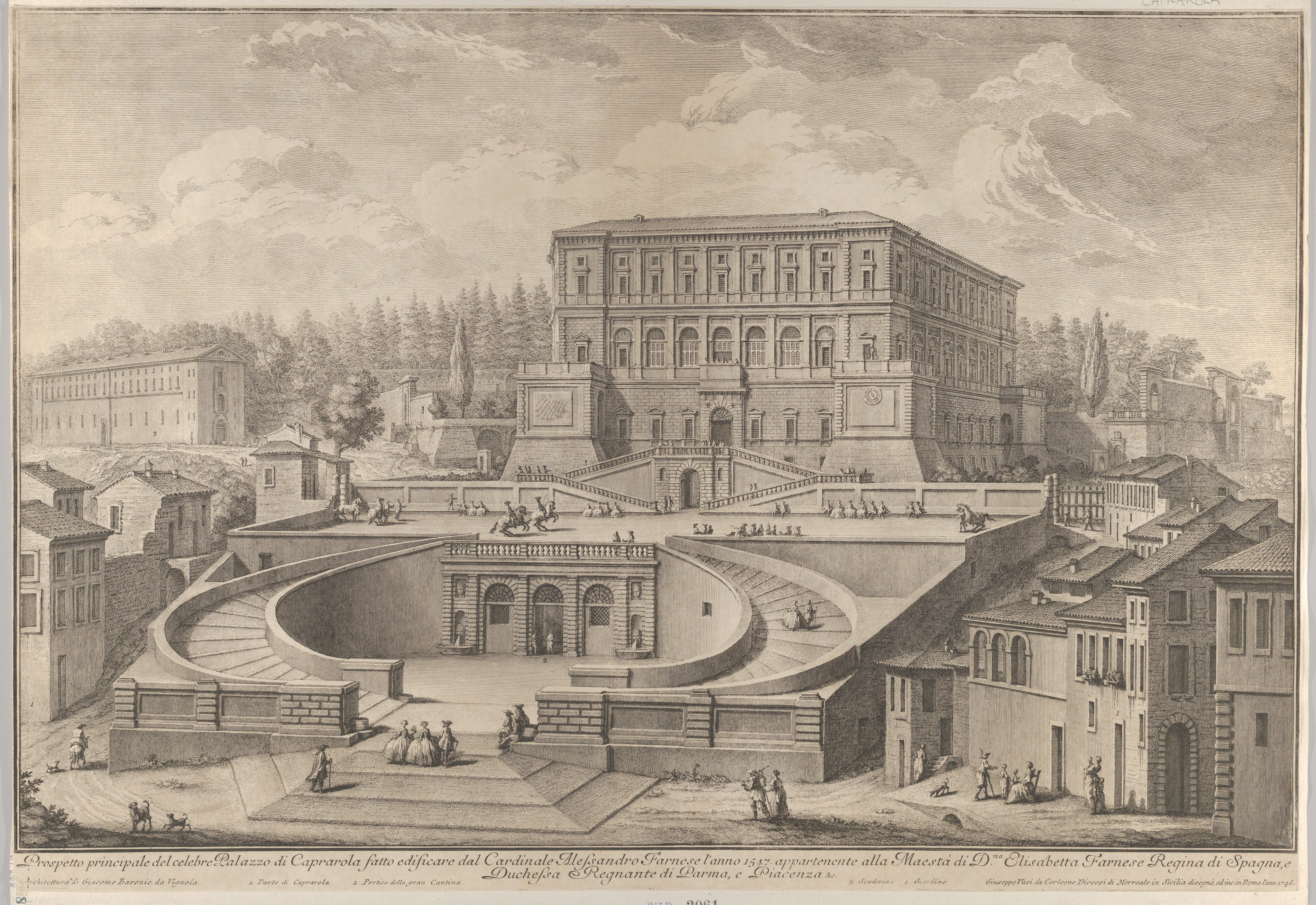 Print; Prints